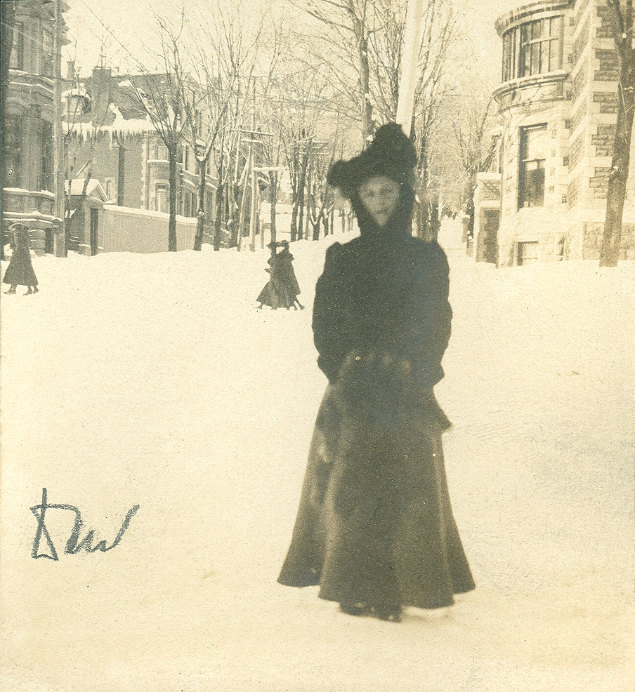 Marjory Meredith Clouston standing at the corner of Drummond and Sherbrooke Streets in Montreal during winter in what is likely 1902. Behind her can be seen the north end of Drummond Street as it ascends Mount Royal.